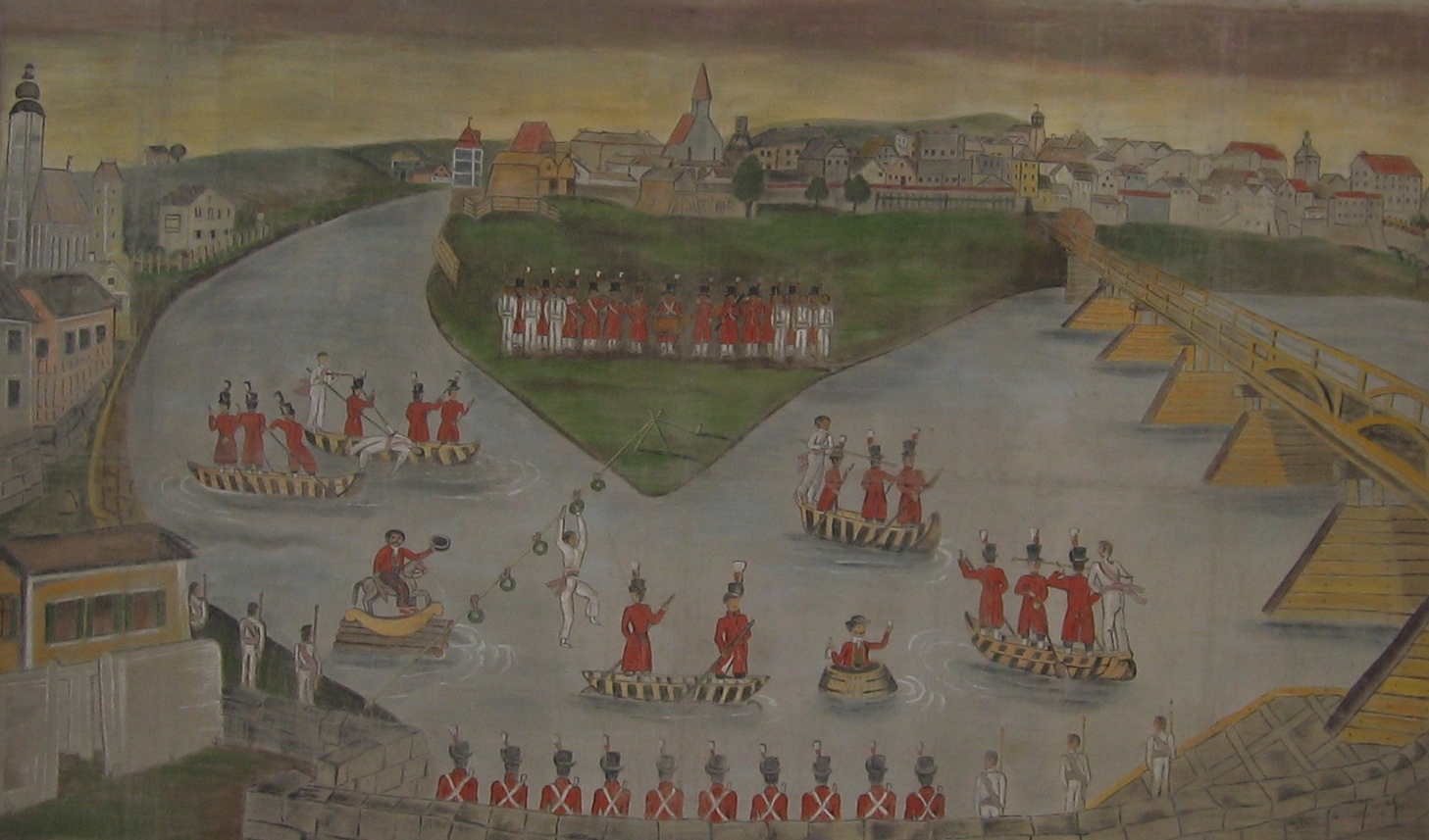 Salzach river bend with Laufen. St. Nikolaus church on the left, old bridge on the right. Annual competition of 'shipping guards'. Photograph by Gakuro. Courtesy of Silent Night museum.